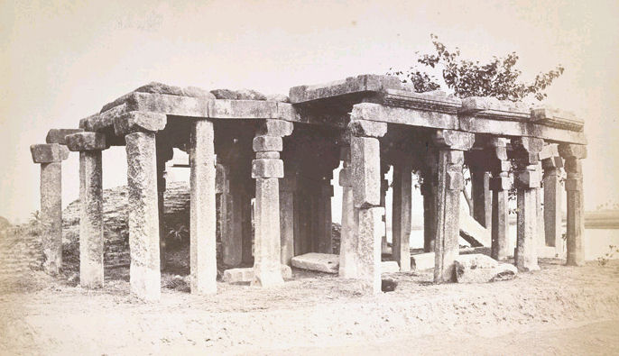 Buddhist pillared temple in Nair between Patna and Gaya